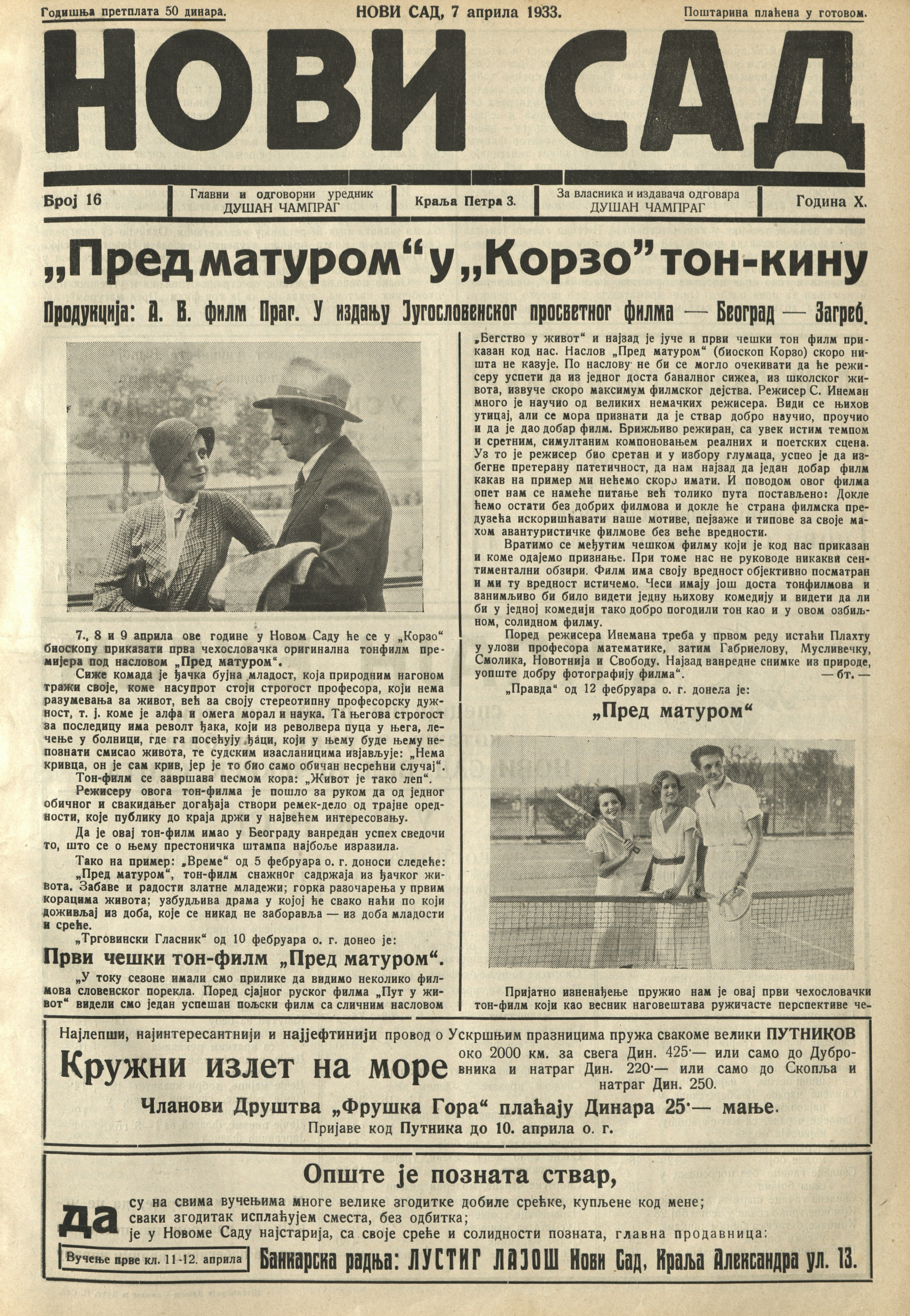 Front page of Serbian tabloid "Novi Sad" (1933) Srpski (latinica): Nalovna strana tabloida "Novi Sad" (1933)